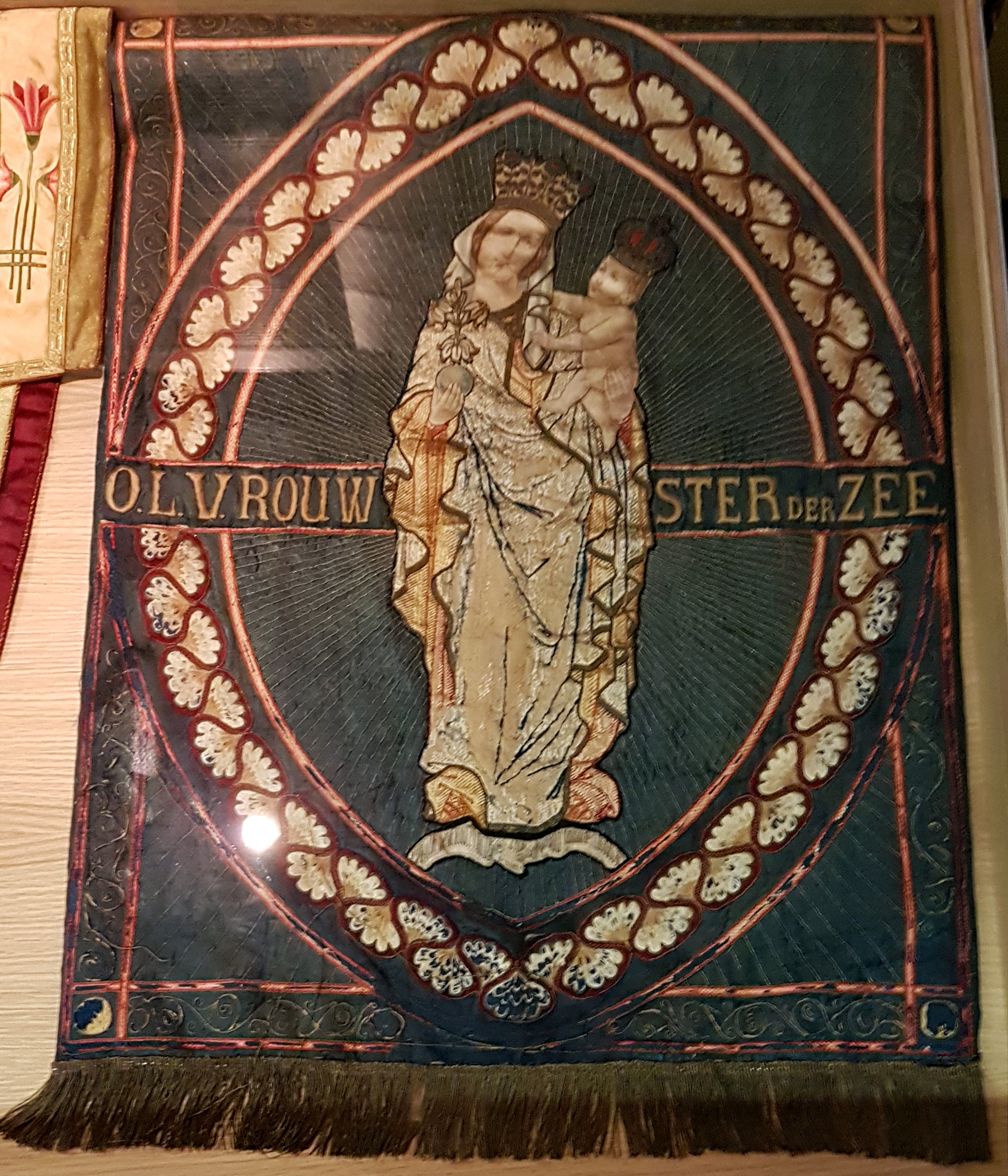 Processional banner of Our Lady, Star of the Sea in the collection of liturgical paraments in the Treasury of the Basilica of Our lady in Maastricht, Netherlands.